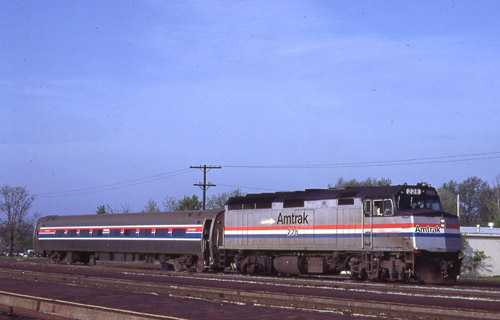 The River Cities at Centralia station in May 1984. The locomotive is in Phase III paint and the single Amfleet passenger car in Phase II.